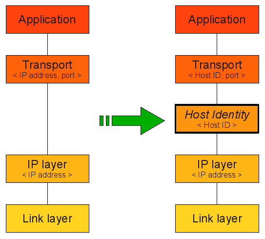 Host Identity Protocol infrastructure